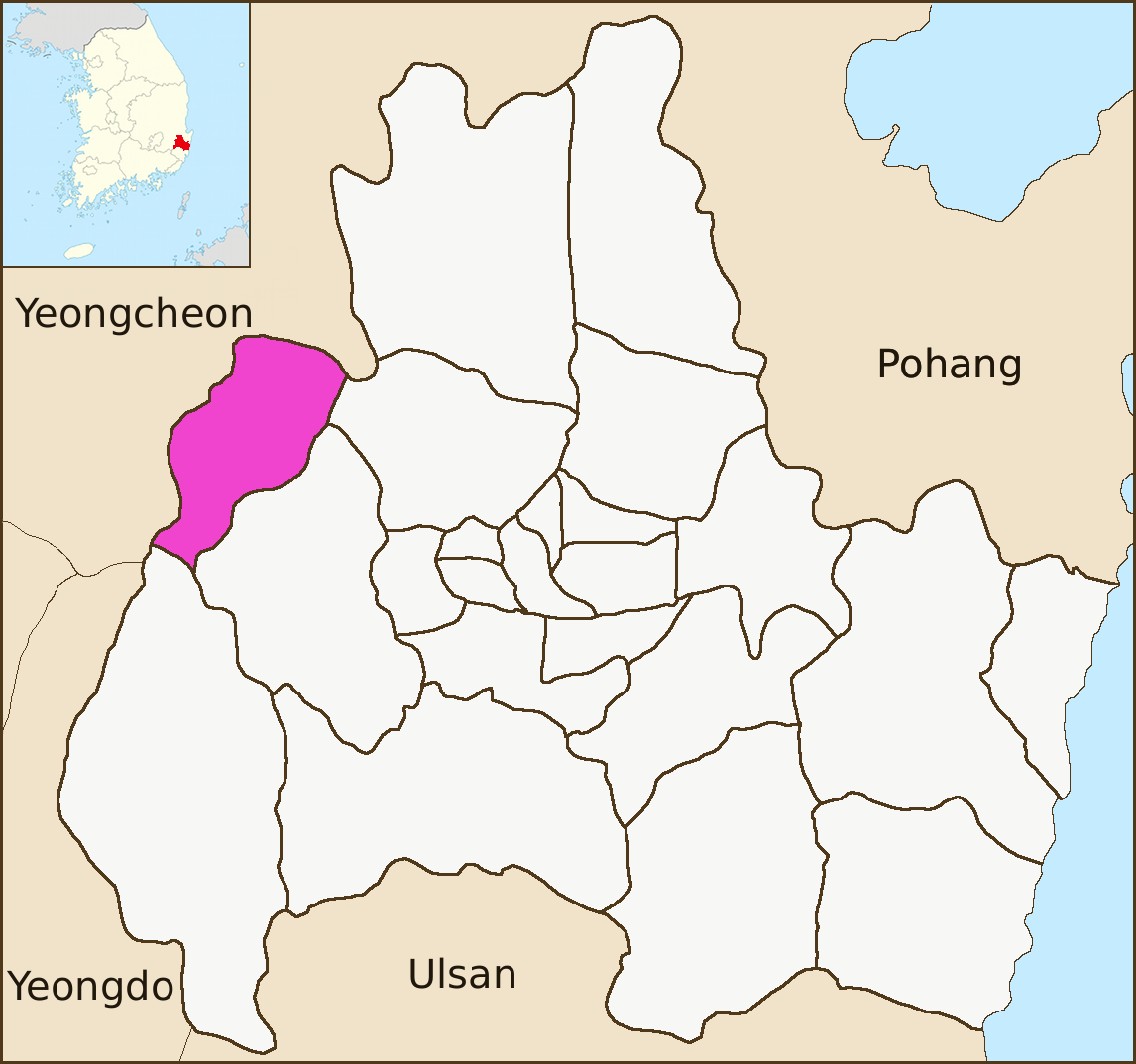 Map of Seo-myeon, an administrative division of Gyeongju, South Korea. Created by User:Visviva, redrawn by Kokiri